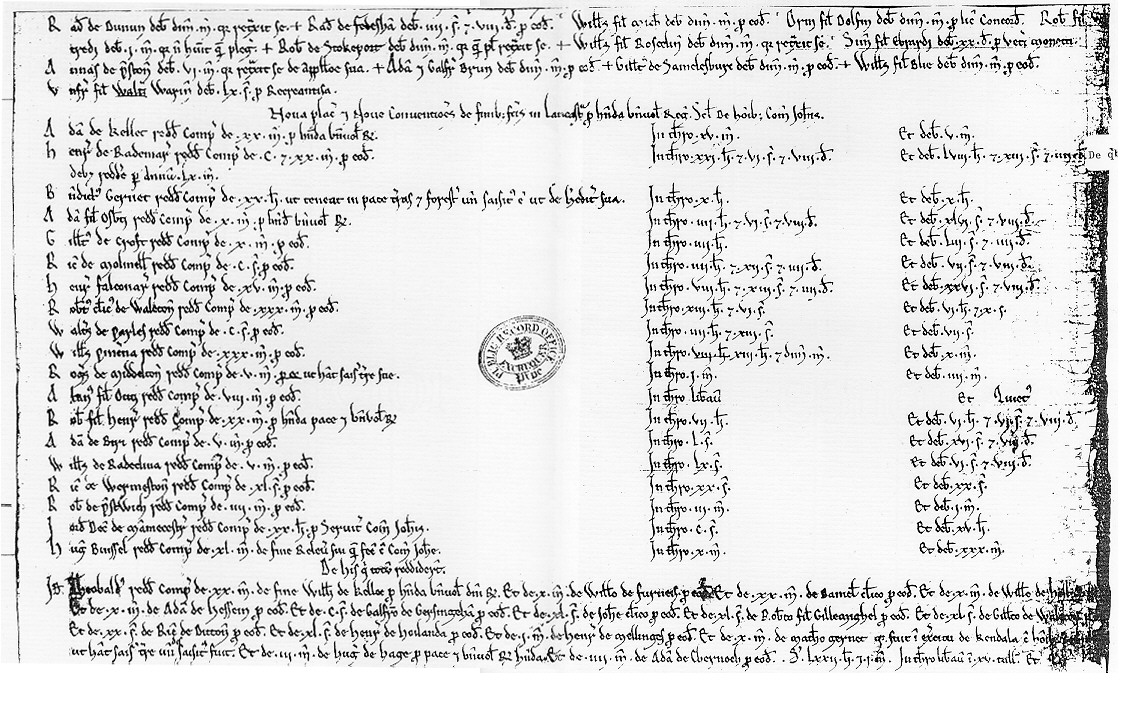 A page of a pipe roll from the year 1194